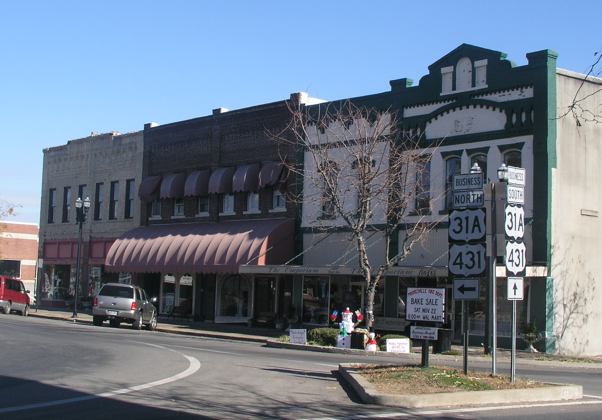 Building on the Lewisburg, Tennessee town square